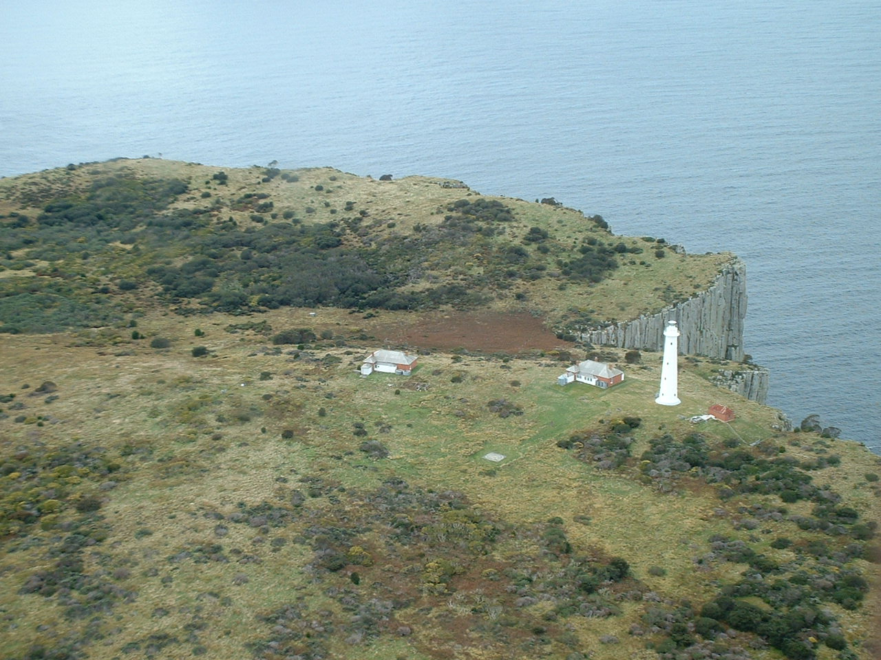 View of lighthouse on Tasman Island.